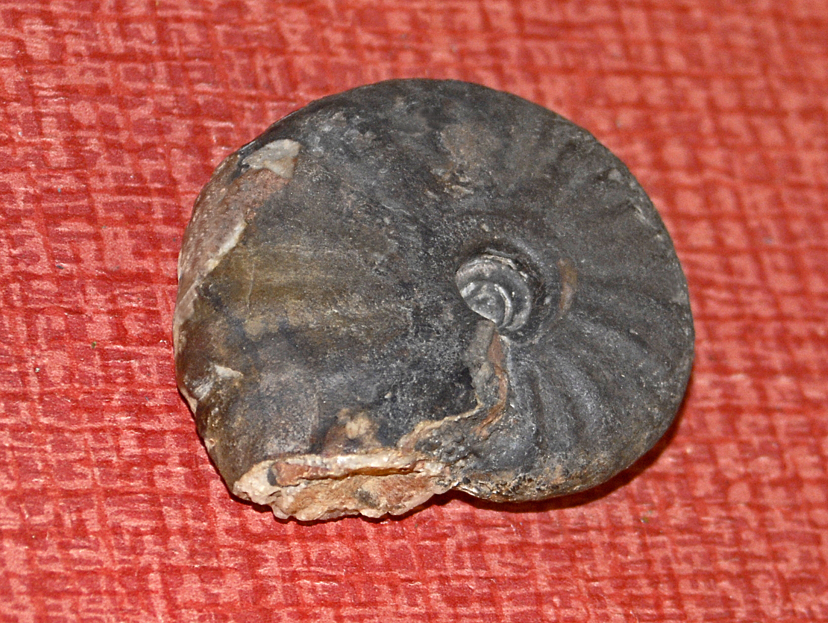 Fossil of Ptychites studeri from Bosnia, on display at Gallery of Paleontology and Comparative Anatomy, Paris.